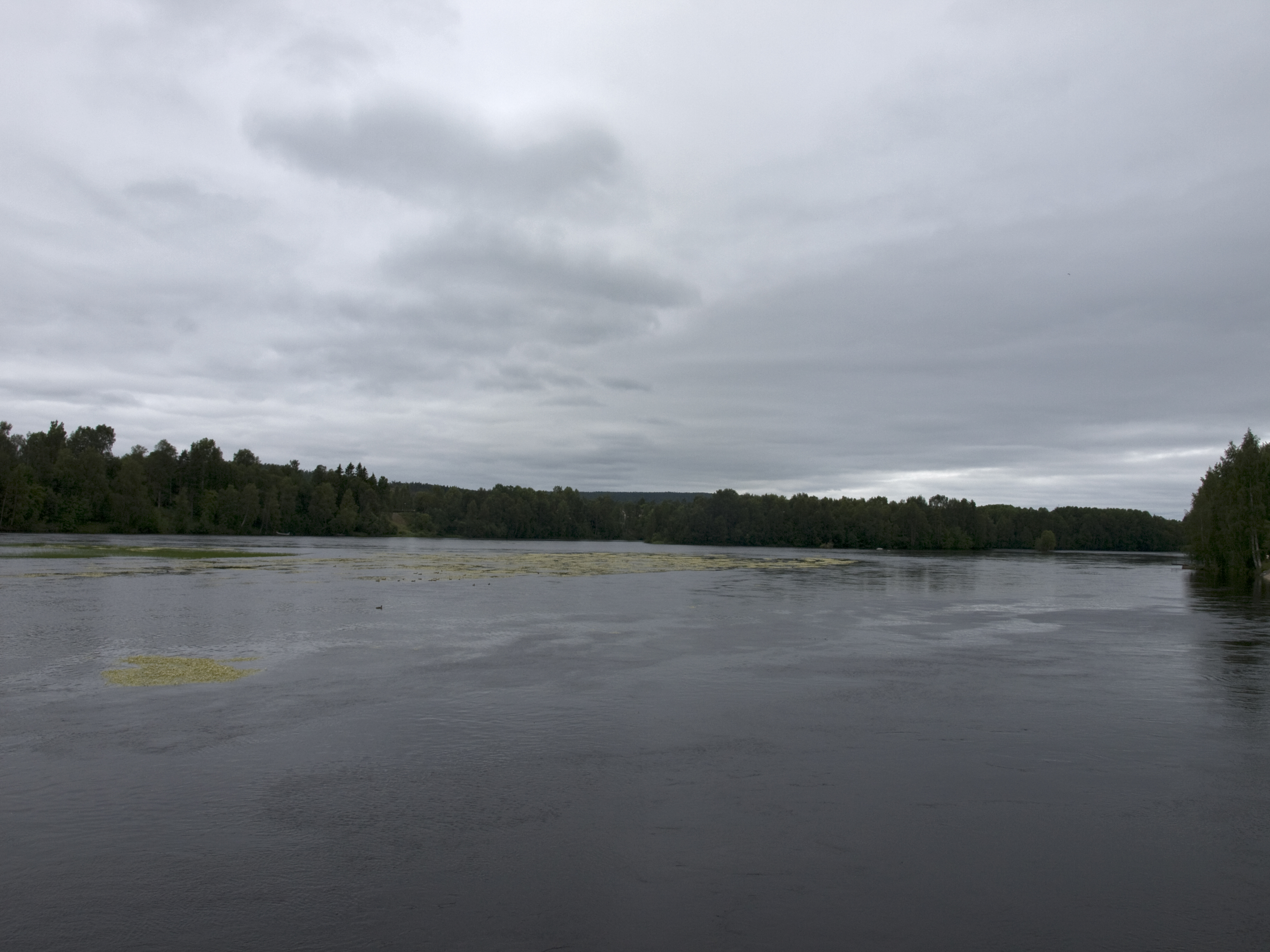 Skellefte älv in Skellefteå, from the left bank, next to Nordanå